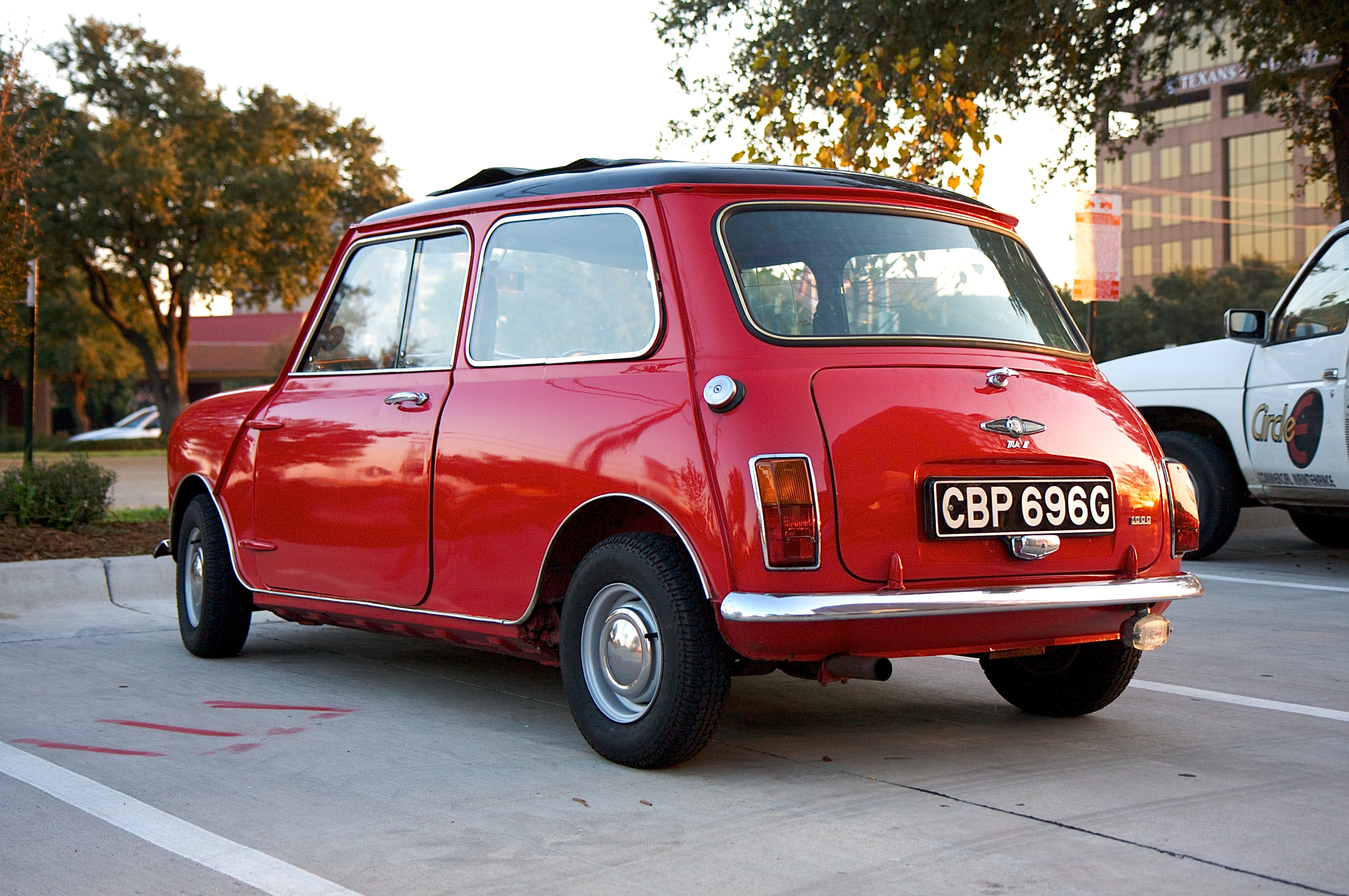 1960s red mini